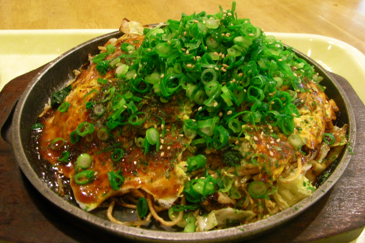 Hiroshima-style Okonomiyaki (善入寺, Hiraiwa), a grilled dish, ordered from a food outlet in the Hiroshima Airport food court. 64-31 Hongōchō Hiroshima Mihara, Hiroshima Airport Terminal Building 3F, Food Court Square